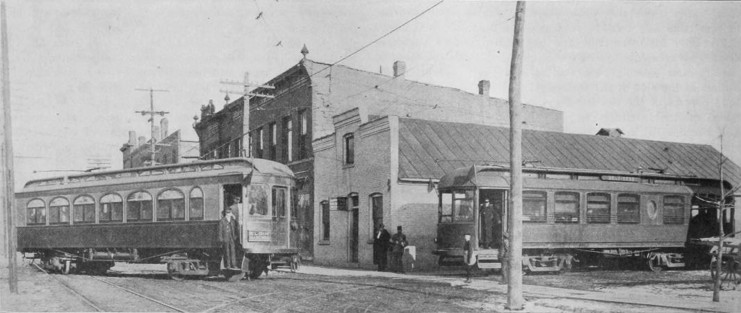 An Elgin and Belvidere interurban car (left) pulls into the terminal in Belvidere, Illinois while a Rockford and Interurban car awaits with crew. Caption: Elgin & Belvidere Electric Company—Belvidere Terminal, Showing Elgin & Belvidere and Rockford & Interurban Cars.